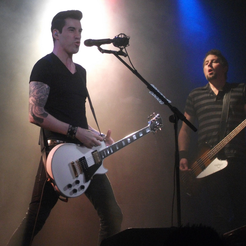 Theory Of A Deadman performing live at Leeds Metropolitan University Students' Union, 2010-04-03.